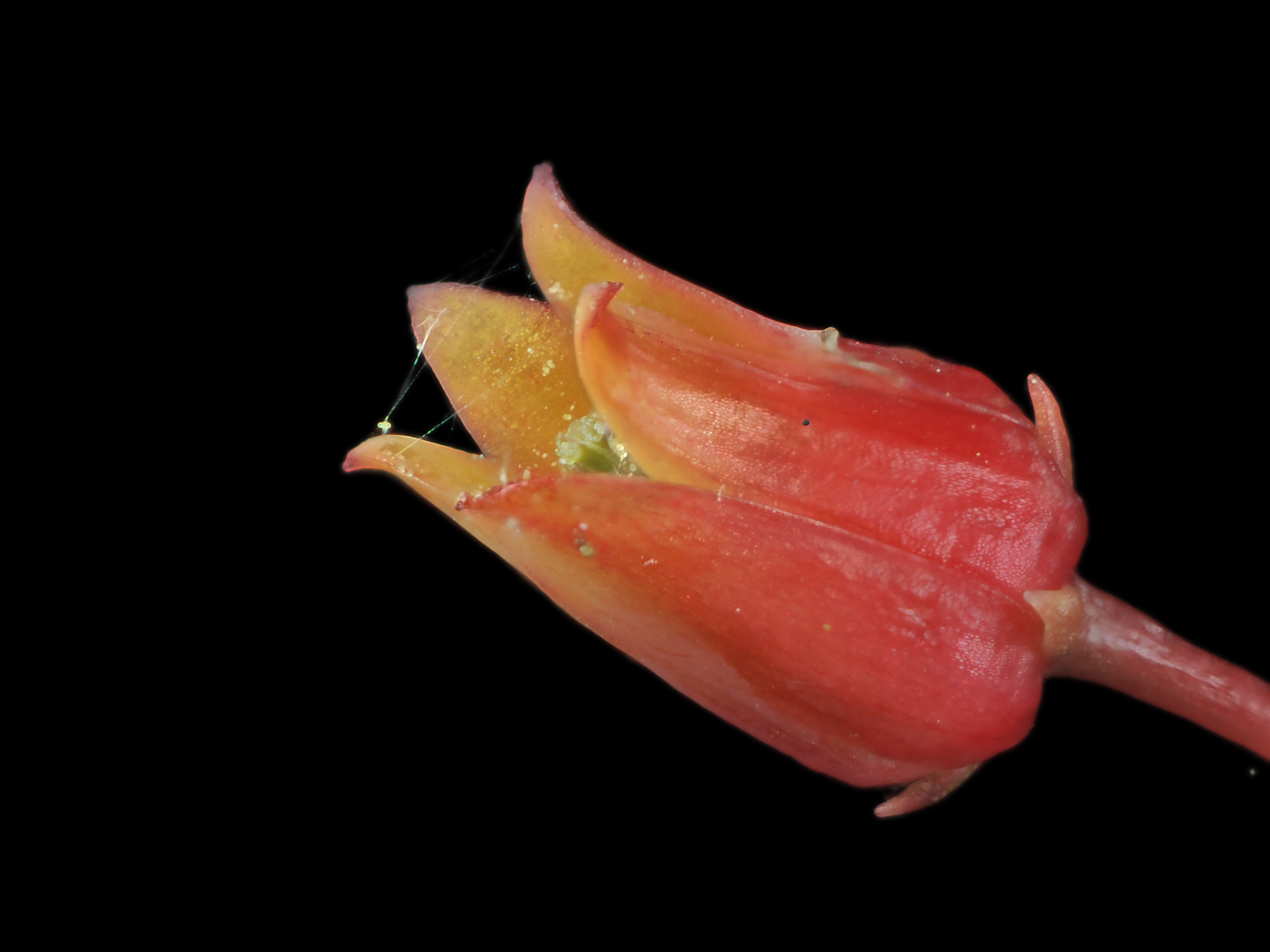 Echeveria agavoides. Flowers of the crested wax echeveria. Grows in several states in central Mexico. For pictures of how the basal rosette looks see my Echeveria album . From a private collenction in Berkeley, CA